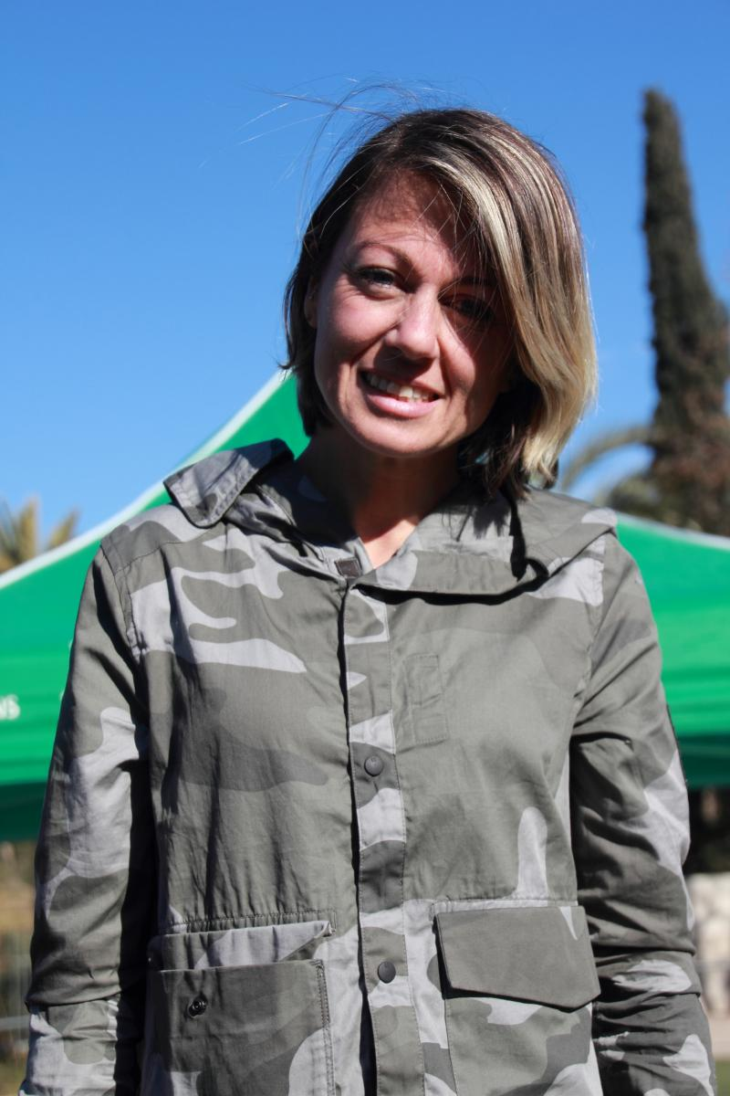 María Vasco in the awards ceremony of the Great Prize of March of Viladecans of 2015.